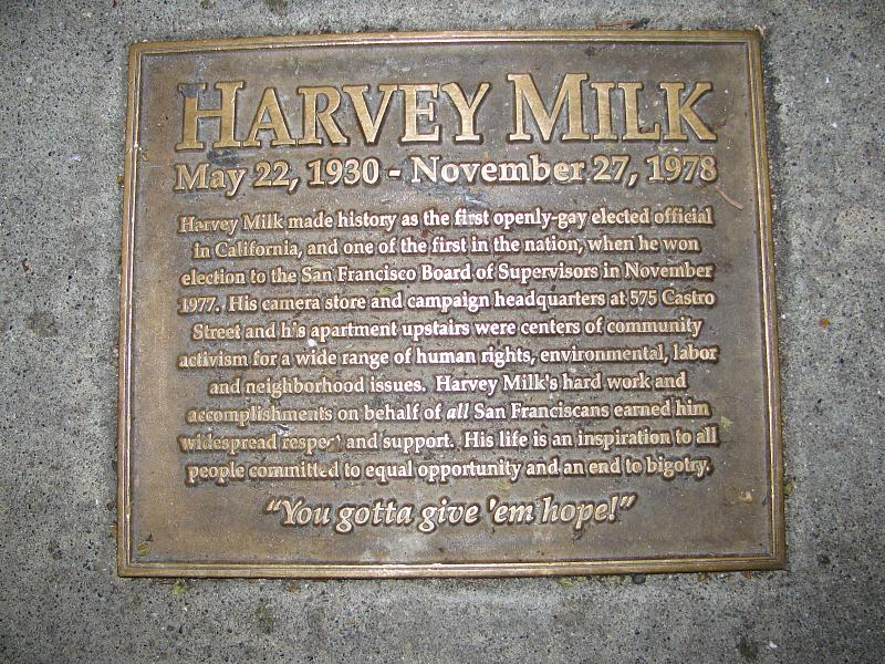 Harvey Milk May 22, 1930 - November 27, 1978 Harvey Milk made history as the first openly-gay elected official in California, and one of the first in the nation, when he won election to the San Francisco Board of Supervisors in November 1977. His camera store and campaign headquarters at 575 Castro Street and his apartment upstairs were centers of community activism for a wide range of human rights, environnmental, labor and neighborhood issues. Harvey Milk's hard work and accomplishments on behalf of all San Franciscans earned him widespread respect and support. His life is an inspiration to all people committed to equal opportunity and an end to bigotry. "You gotta give 'em hope!"